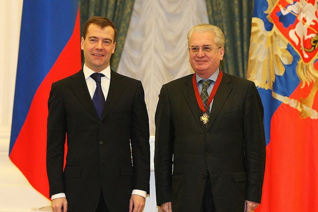 Dmitry Medvedev & Mikhail Piotrovsky